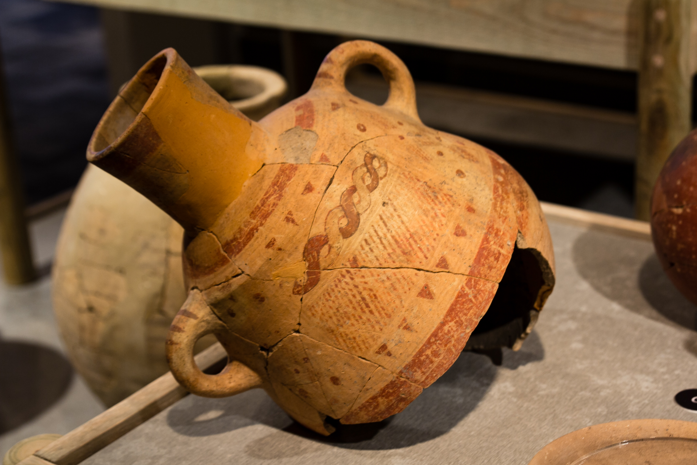 Tel Rehov exhibition at the Land of Israel Museum in Tel Aviv. Decorated Phoenician style jar, imported from the Phoenician coast